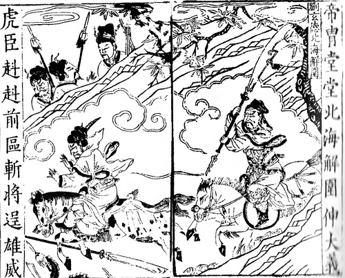 A Qing Dynasty portrait of when Guan Yu slew Guan Hai.